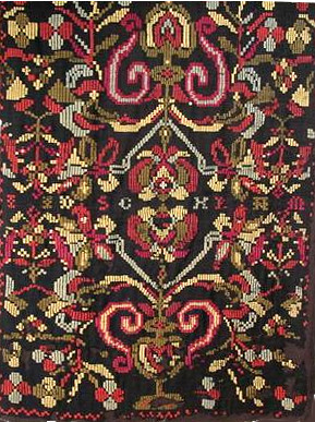 embroidered cloth to bee used on horses. Embroidered in Iceland around 1840-1870.